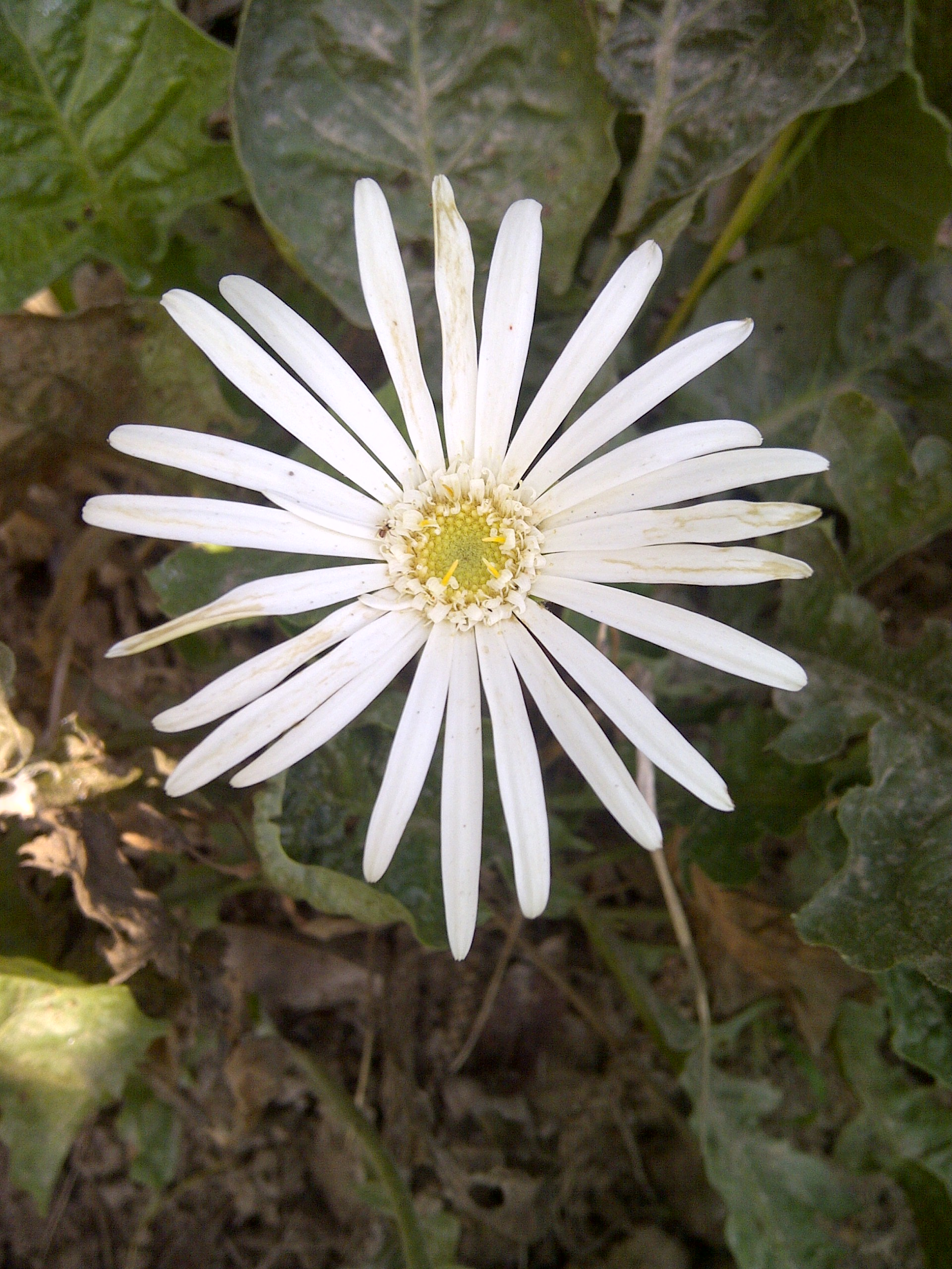 Gerbera